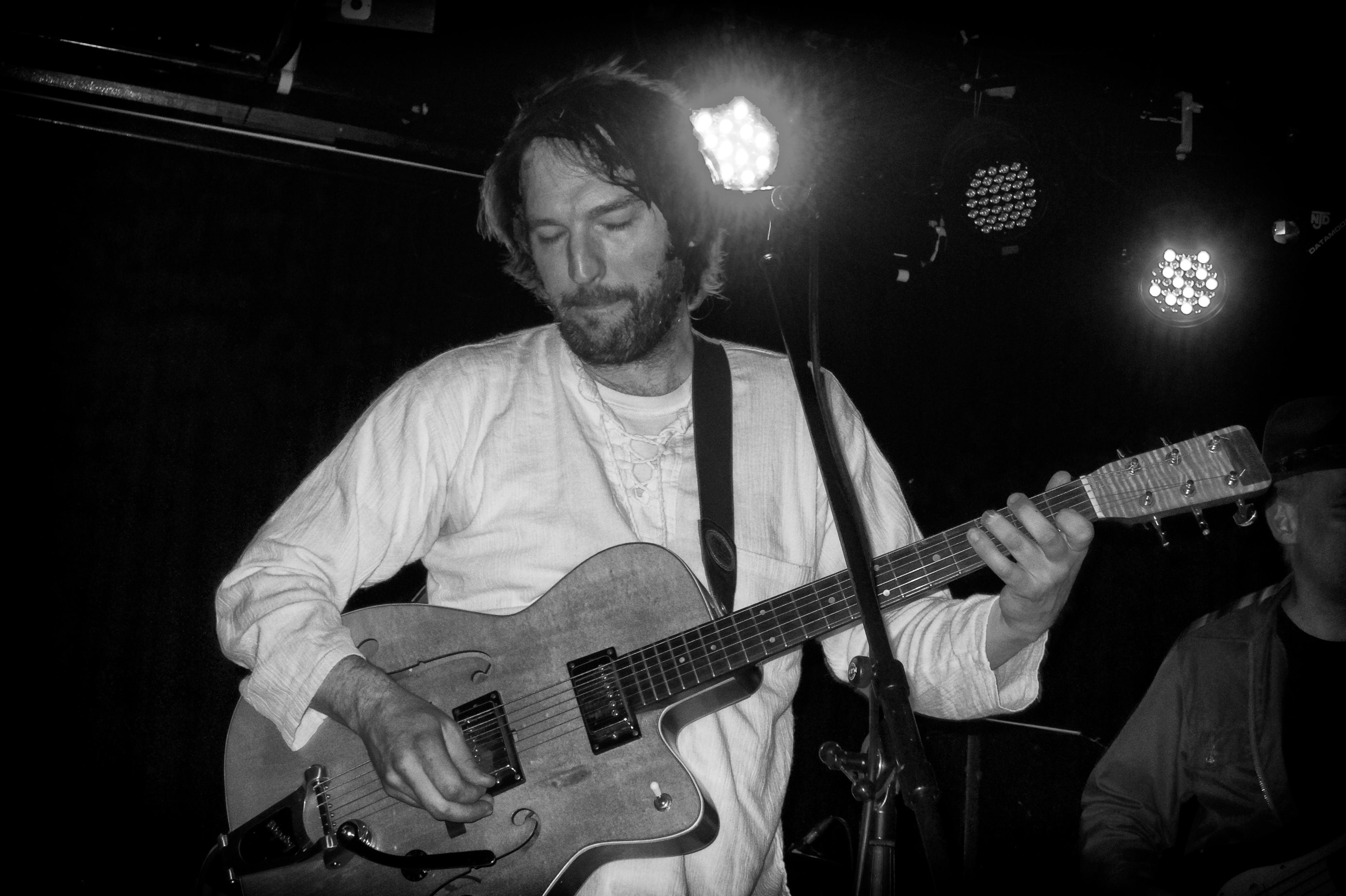 Kelley Stoltz performing at The Lexington in 2014